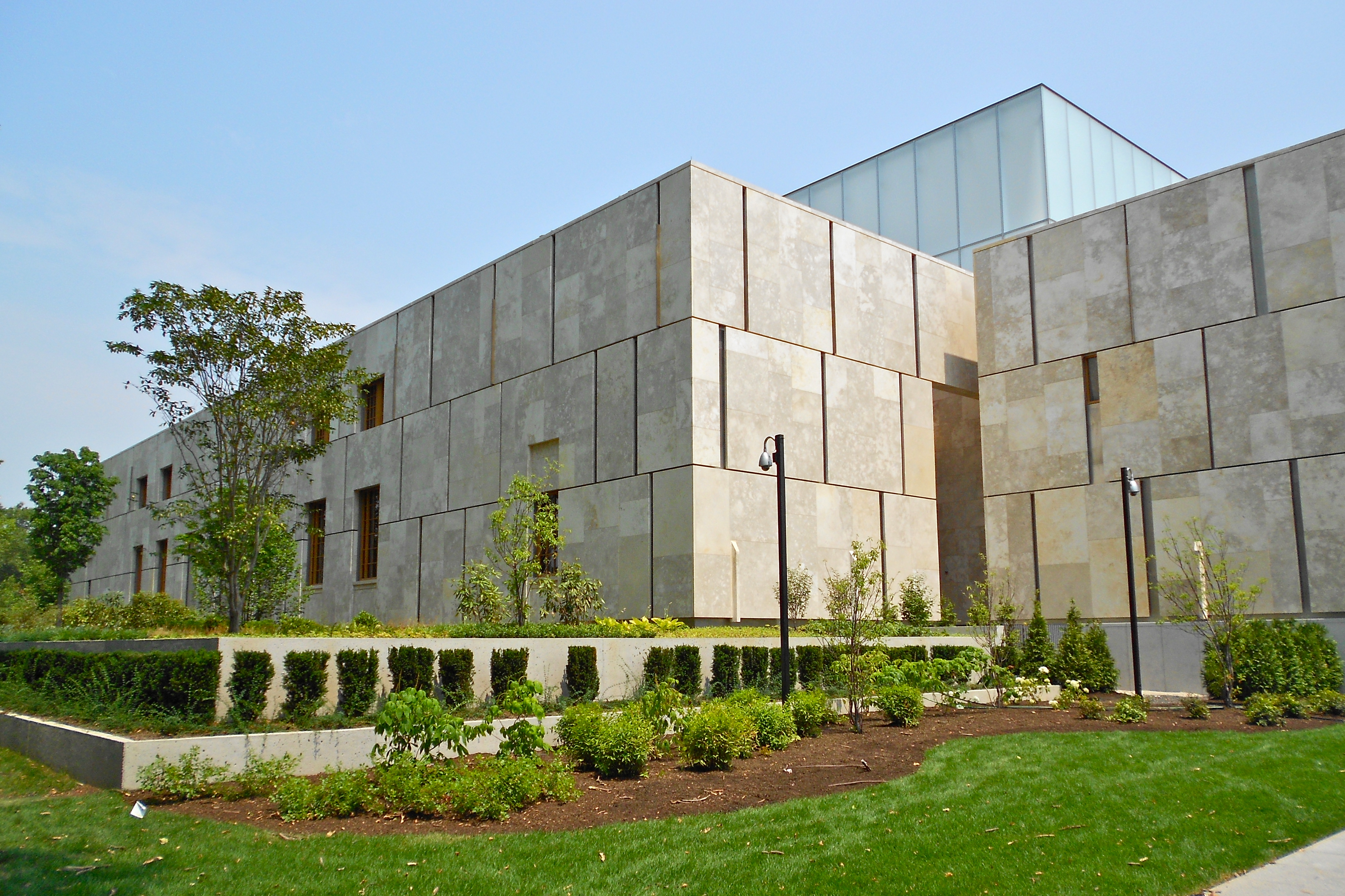 The new Barnes Foundation Museum on the Ben Franklin Parkway in Philadelphia.